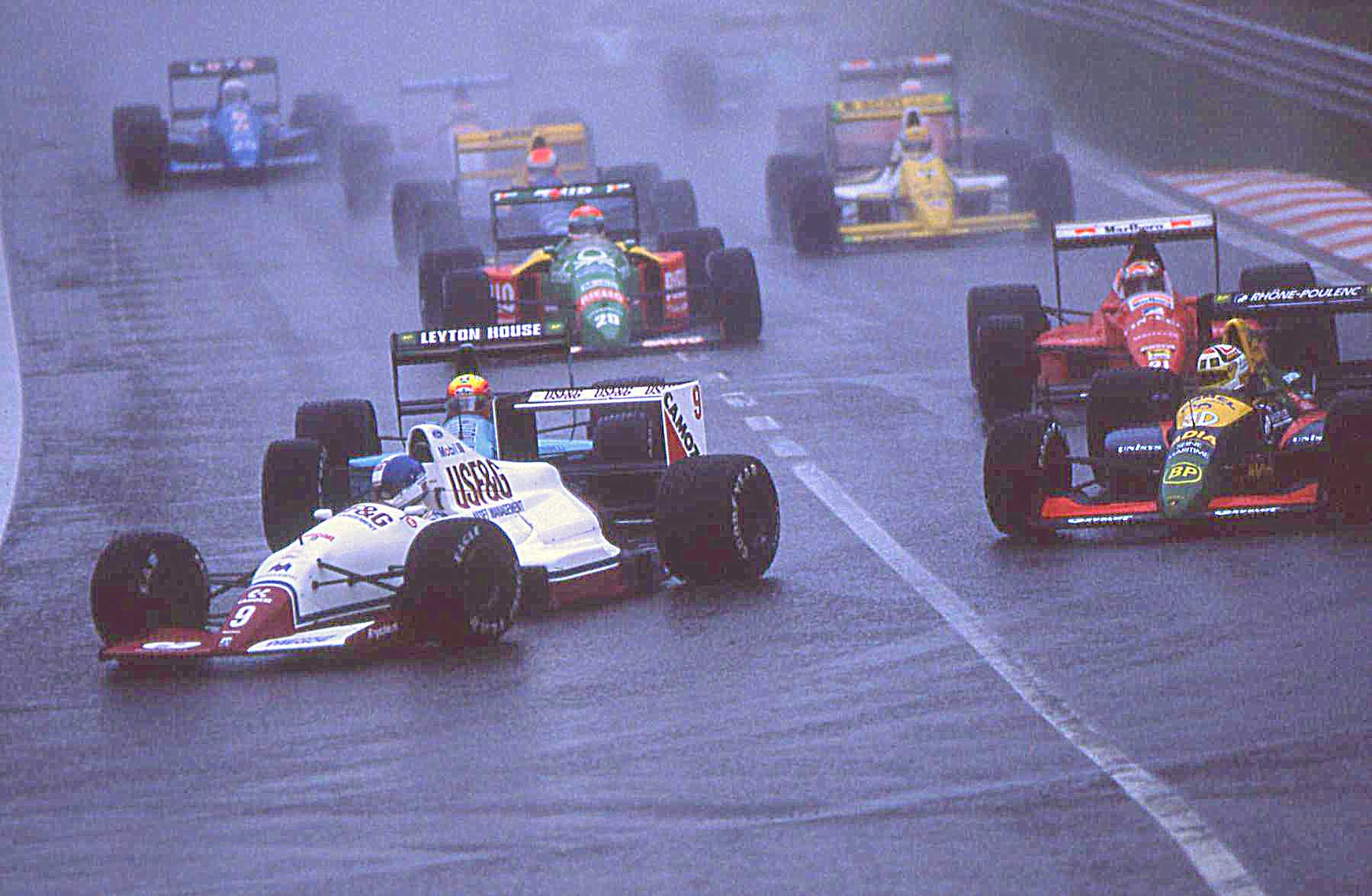 Derek Warwick 9 -Arrows-Ford. Scan diapo argentique.